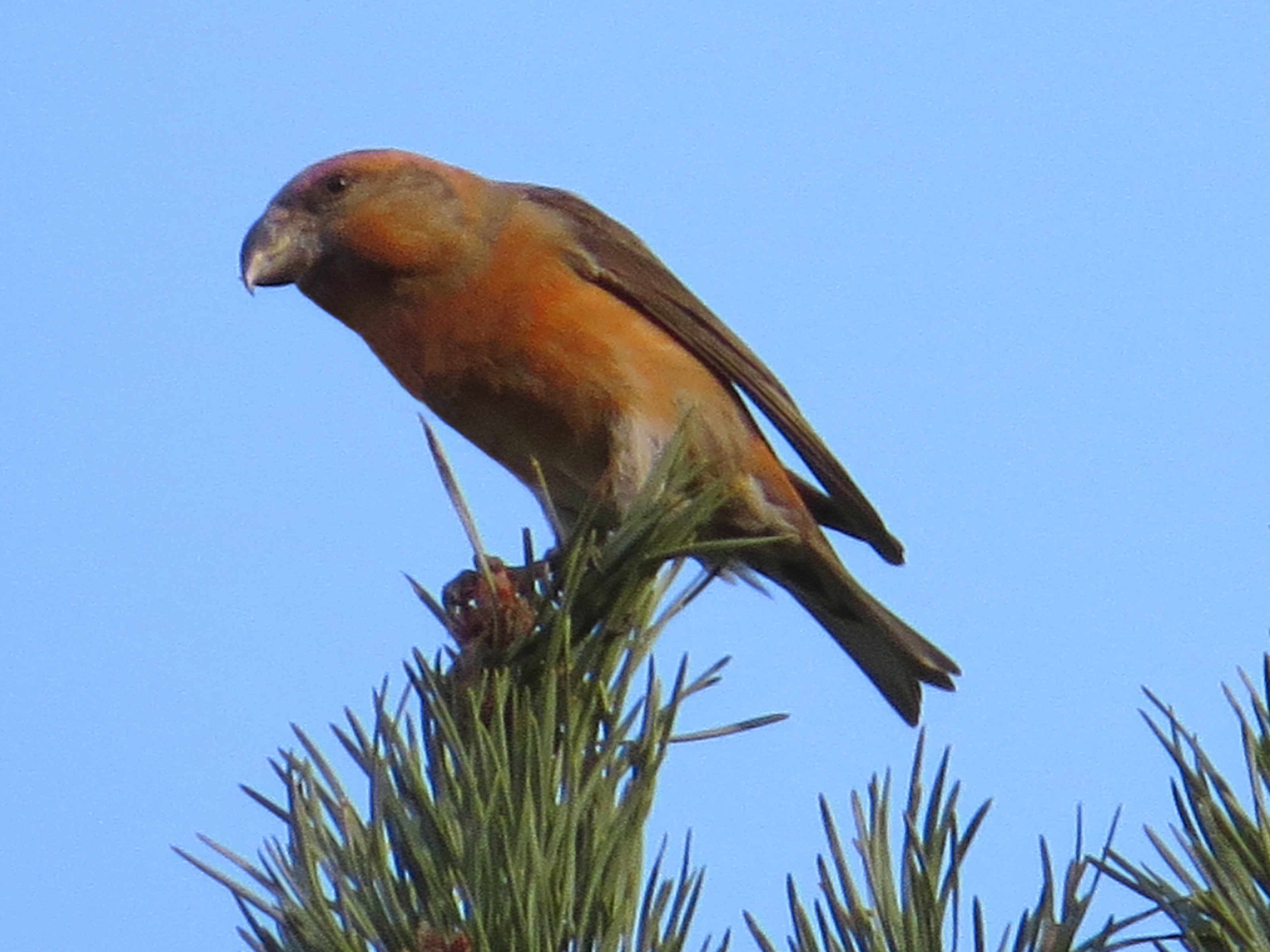 Parrot Crossbill Loxia pytyopsittacus ♂, Budby Common, Nottinghamshire